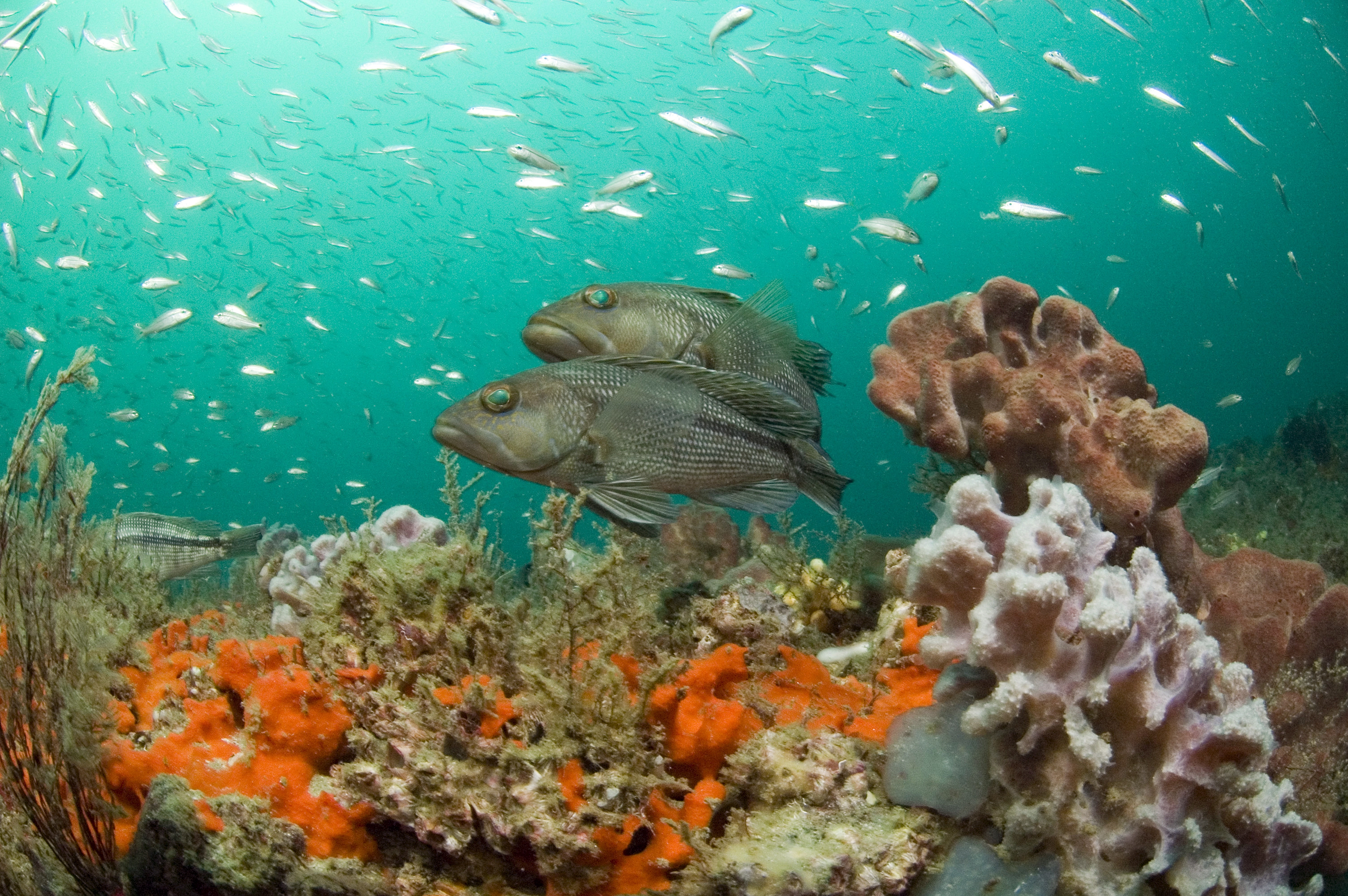 Black sea bass (Centropristis striata) hovering over the reef. Georgia, Gray's Reef National Marine Sanctuary.